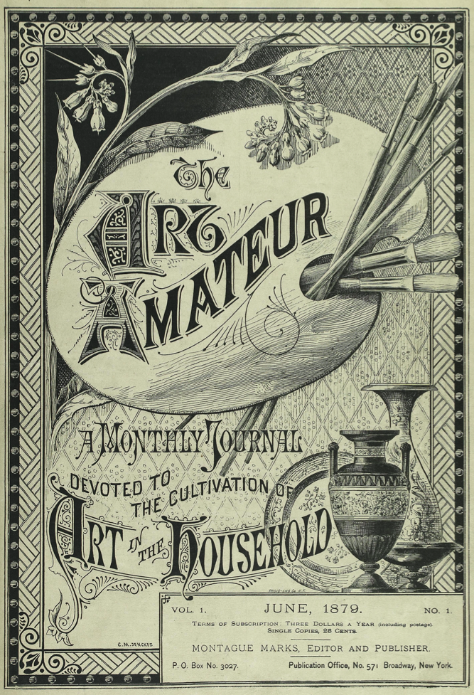 cover of Art Amateur magazine, 1879